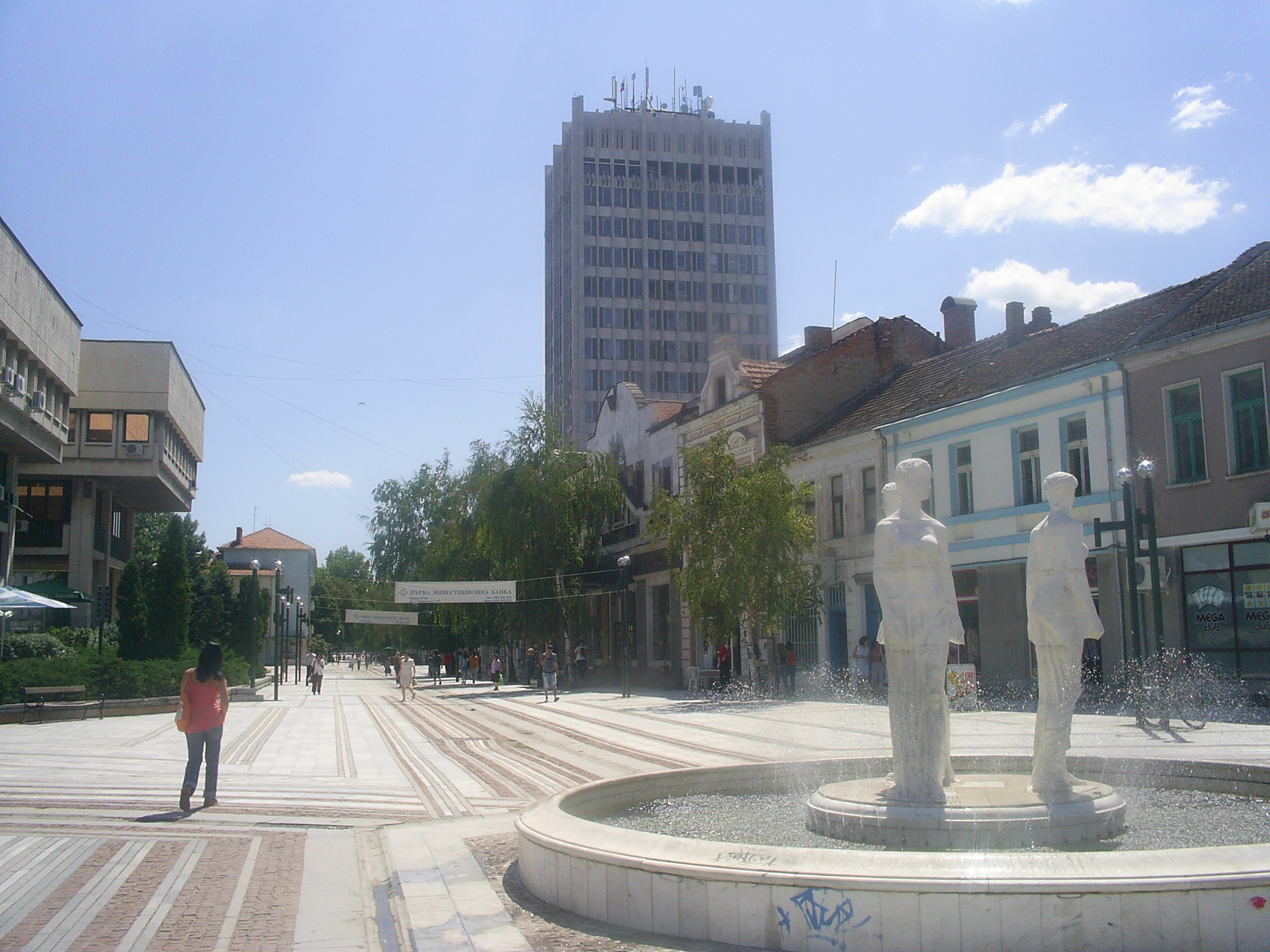 Town Vidin, Bulgaria